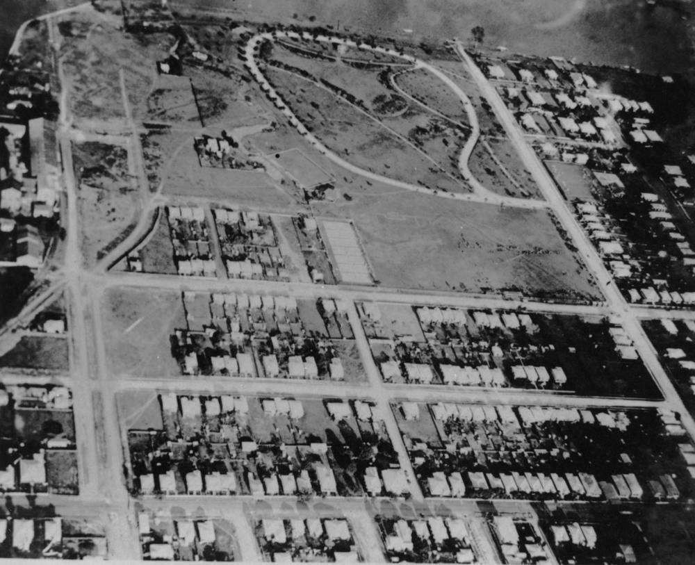 Aerial view of New Farm showing New Farm Park, ca. 1925. This aerial view of New Farm shows New Farm Park in centre, with the circular road way . A small area of the Brisbane River can be seen next to the park (top of photograph). On the right of the park is Brunswick Street. The track-like street on the far left is James Street. Sydney Street runs across the photograph and forms the third border of the park. Residential housing is shown.